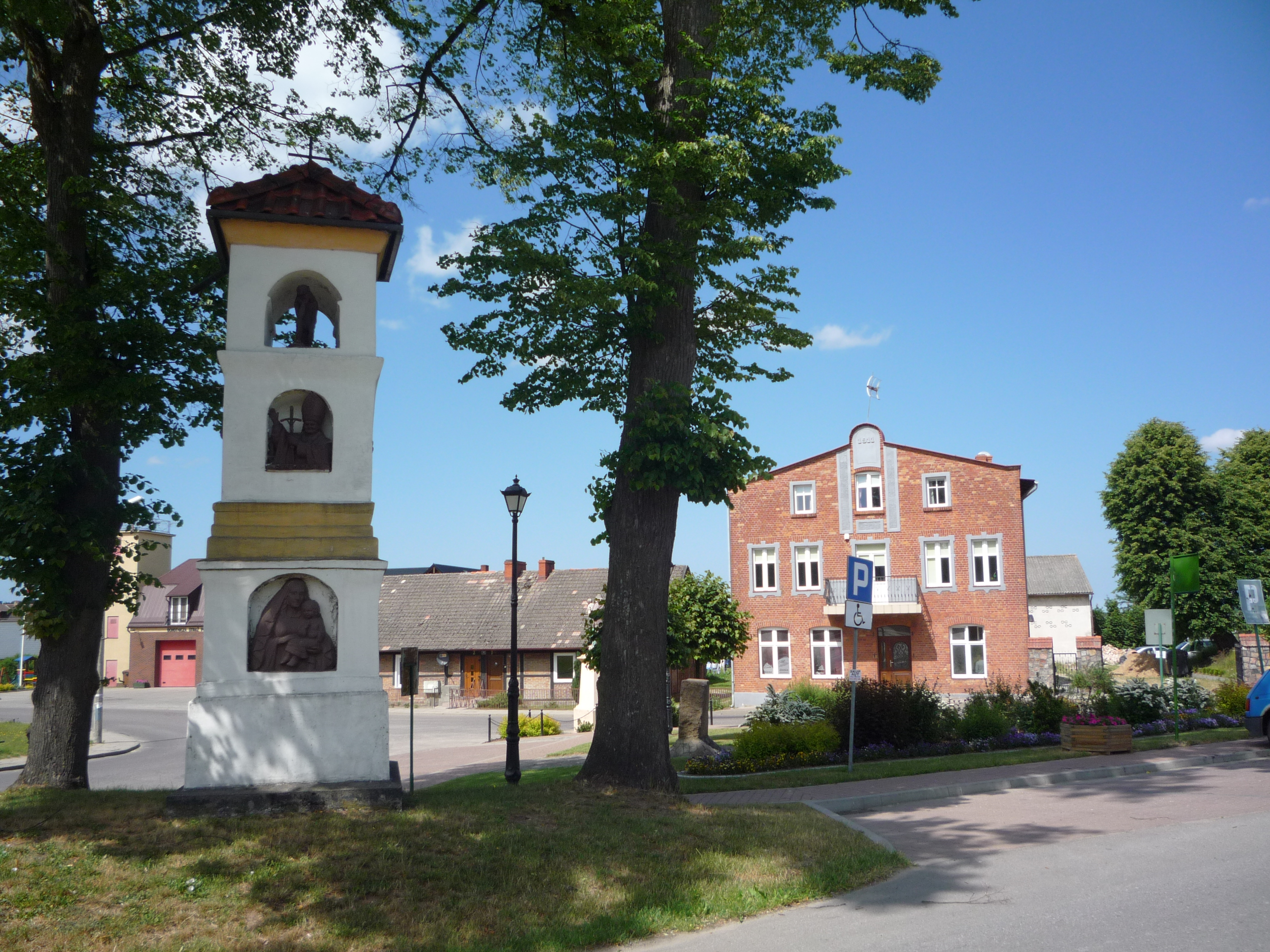 Saint Joseph square in Luzino with chapel and historical building from 1911